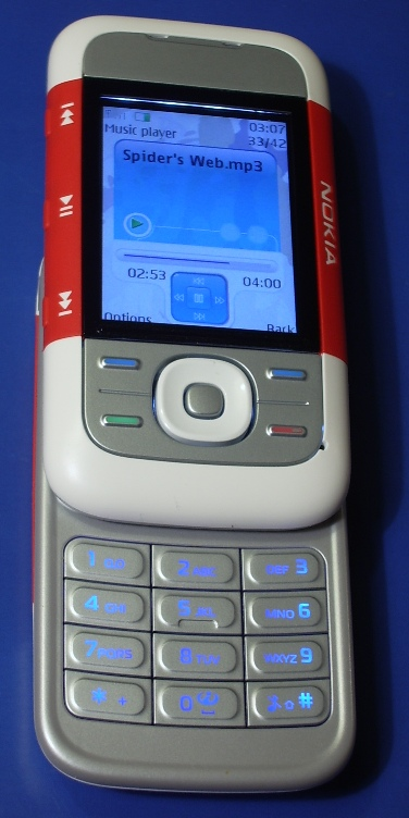 Nokia 5300, showing music player